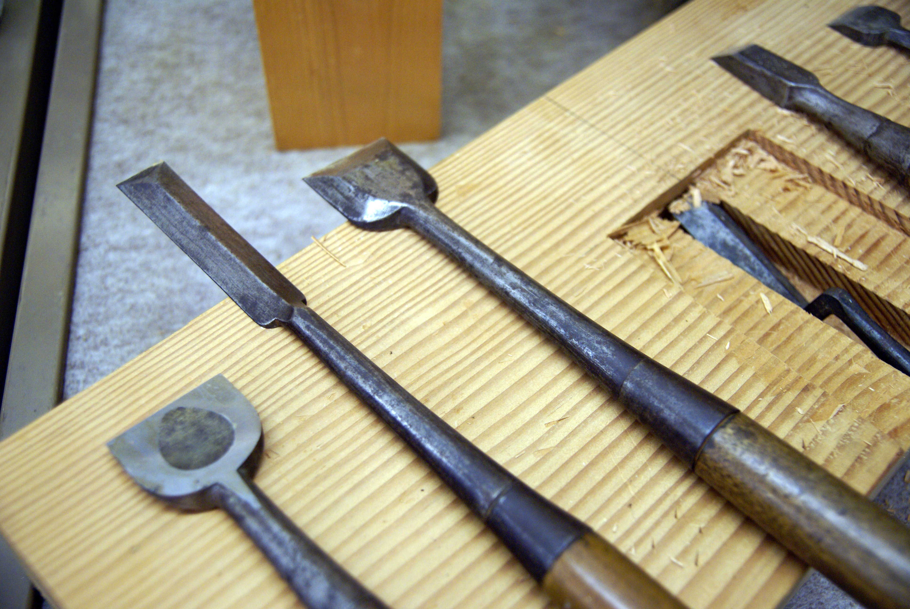 Miki City Hardware Museum in Miki, Hyogo prefecture, Japan